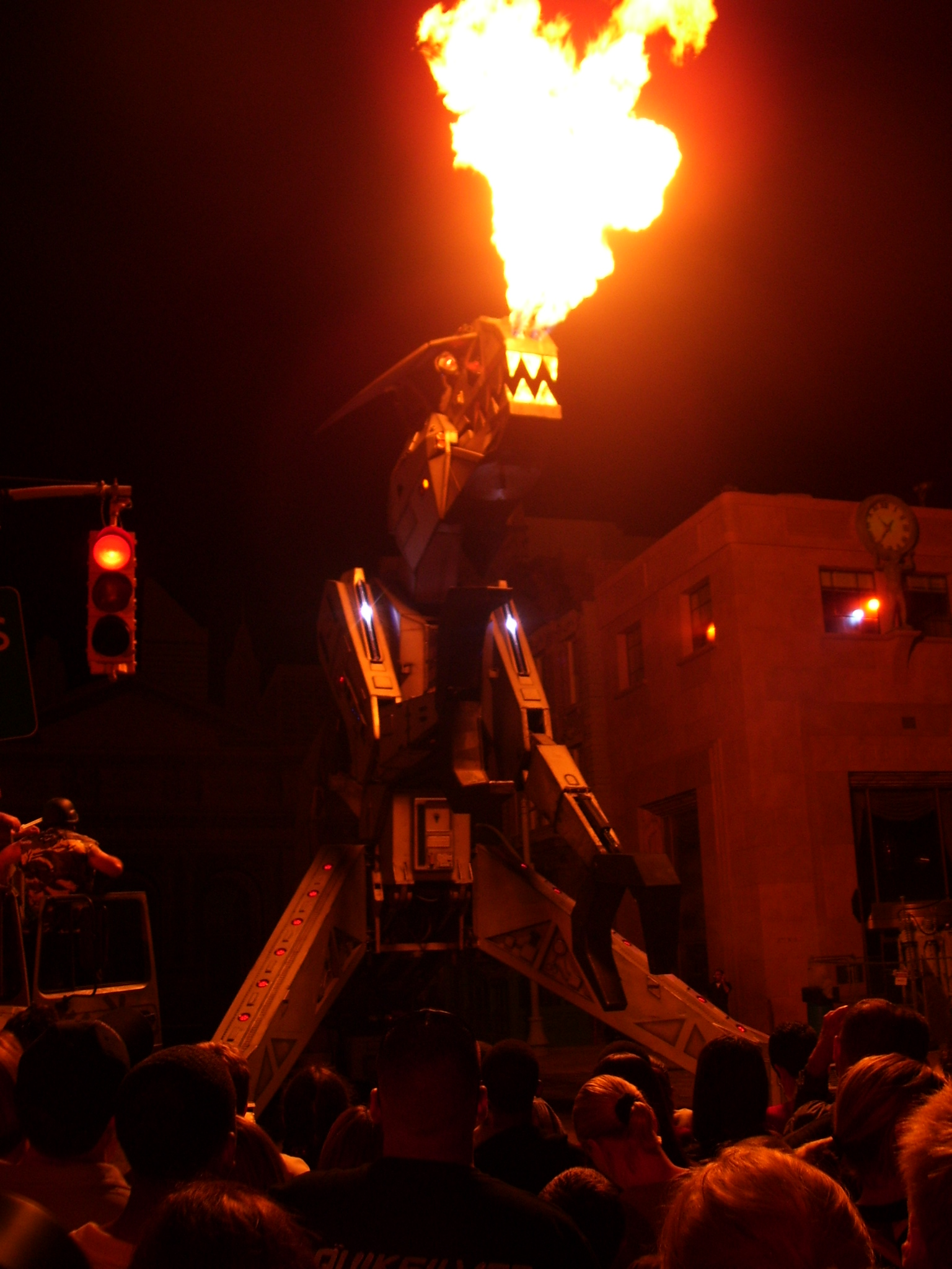 I took this picture at Halloween Horror Nights and release it to the public domain.